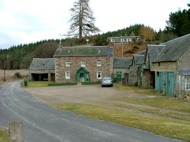 Guay Farm Guay farm sits beside the A9 Perth to Inverness road. The road in the picture is the old A9.